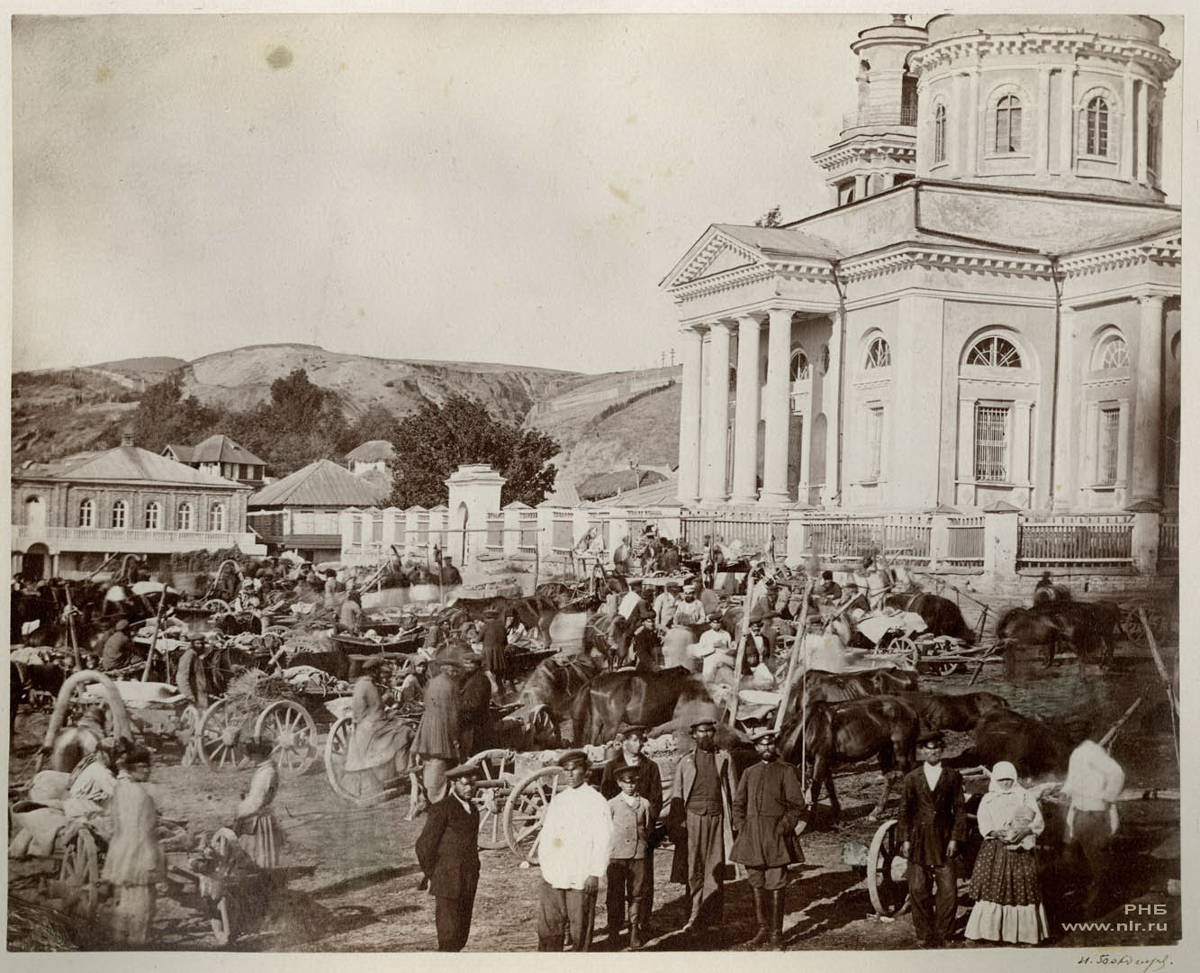 Market in a feast day in Tsymlyanskaya village, Don Cossacks Host, 1875-1876. Russian Empire.